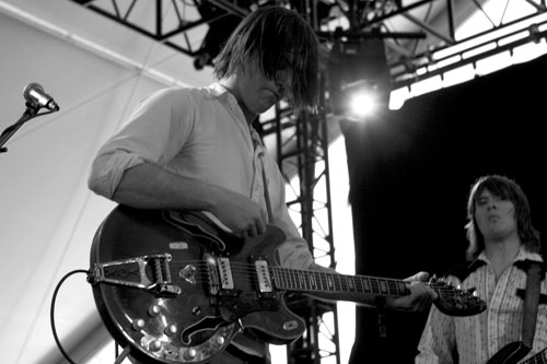 Anton Newcombe performing live with Brian Jonestown Massacre at the Coachella Music Festival